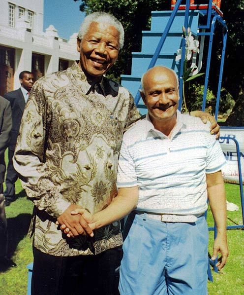 Nelson Mandela and Sri Chinmoy in Pretoria, 1999.